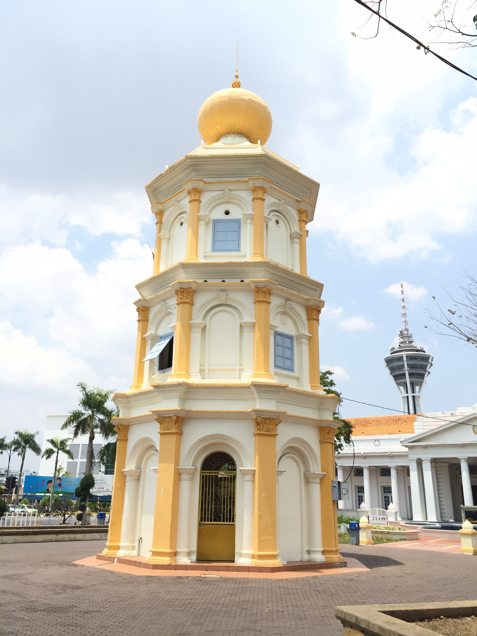 A place where Kedah Royal's instrument were kept in the past